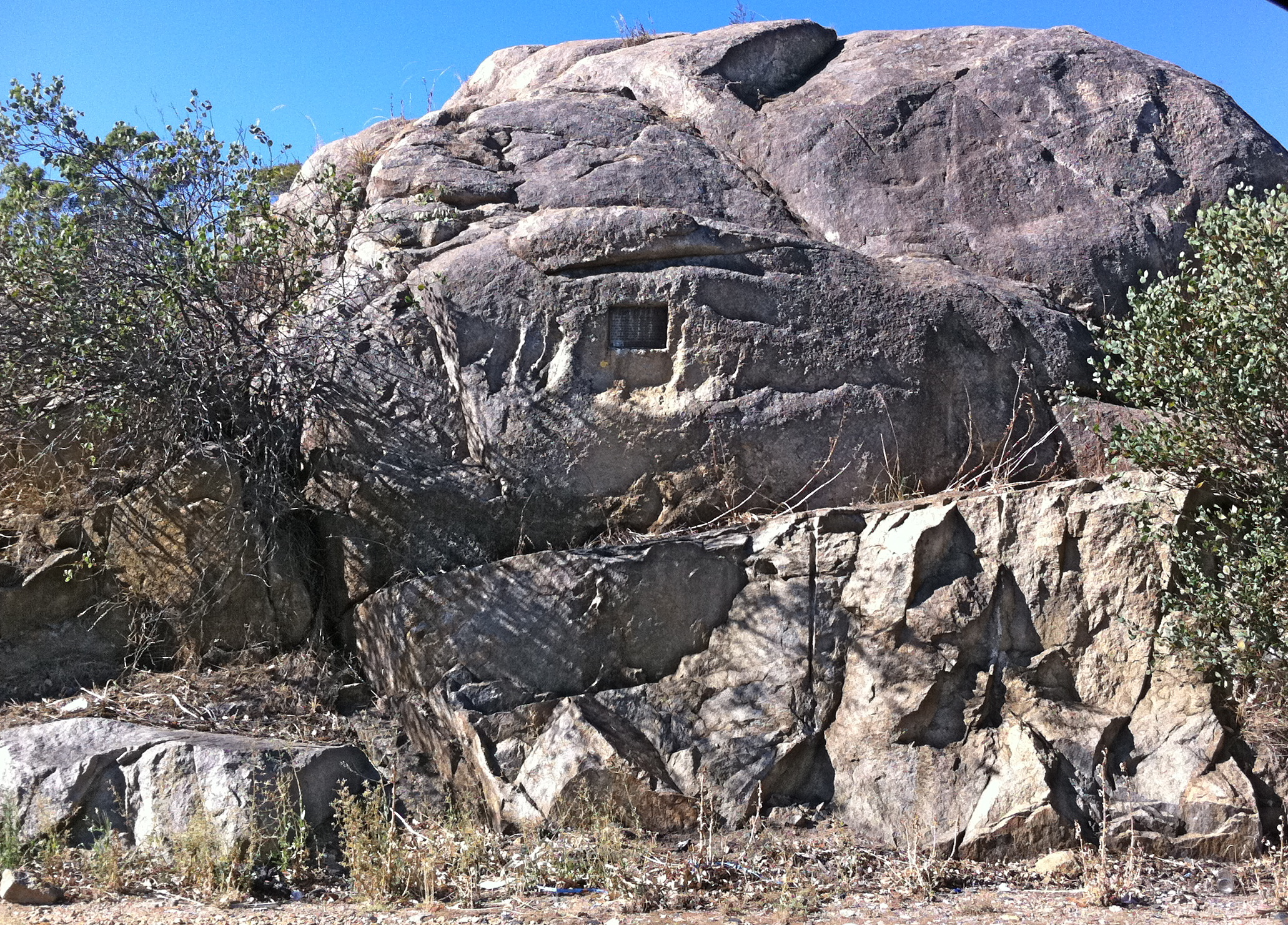 Chippers Leap is a memorial on the northern side of the Great Eastern Highway in the suburb of Greenmount Hill, Western Australia